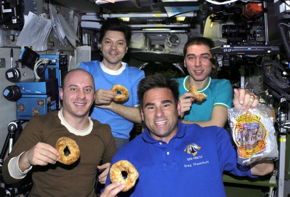 Greg Chamitoff, the nephew of the owner of the store, managed to take products from Fairmount Bakery with him in his shuttle into space in 2008.